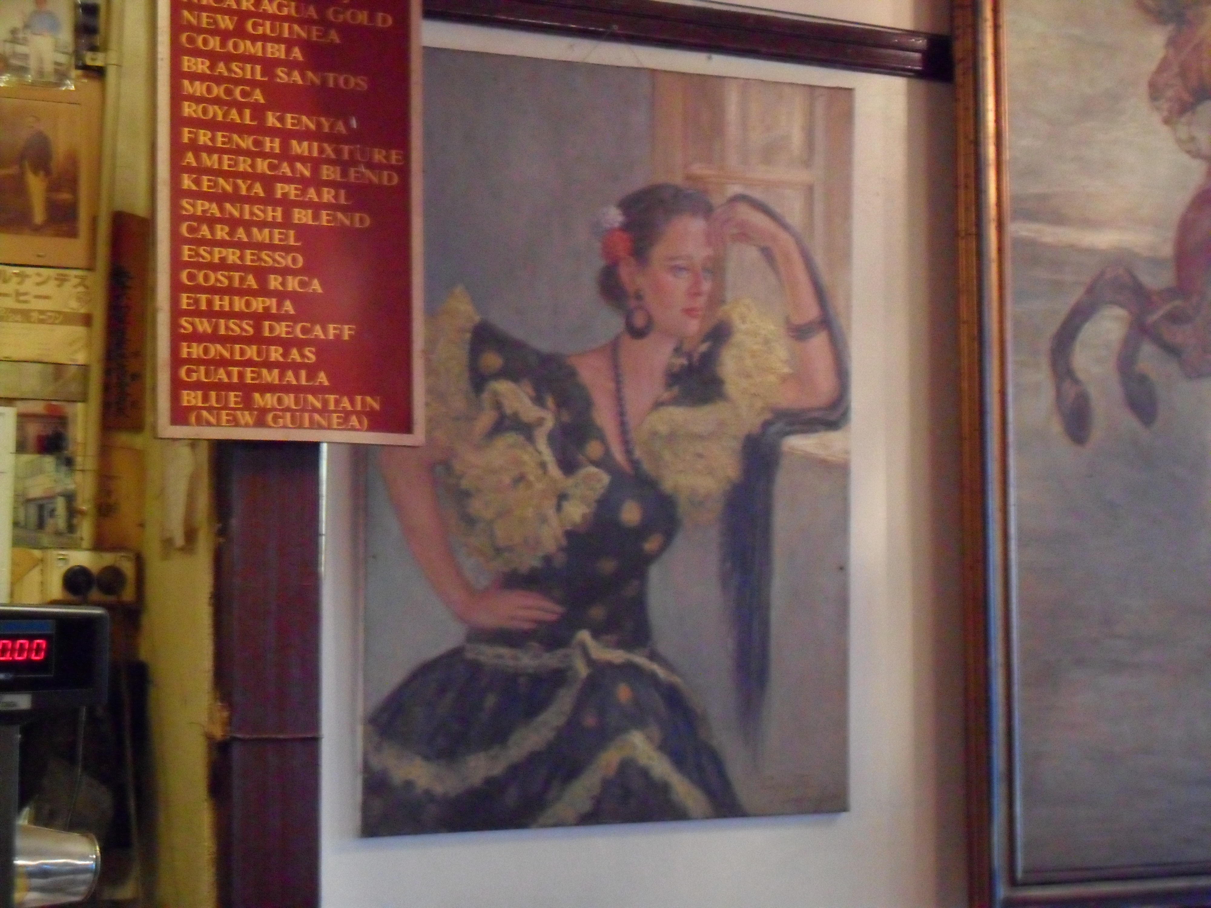 Hernandez Cafe, paintings on wall by Paquita Sabrafen